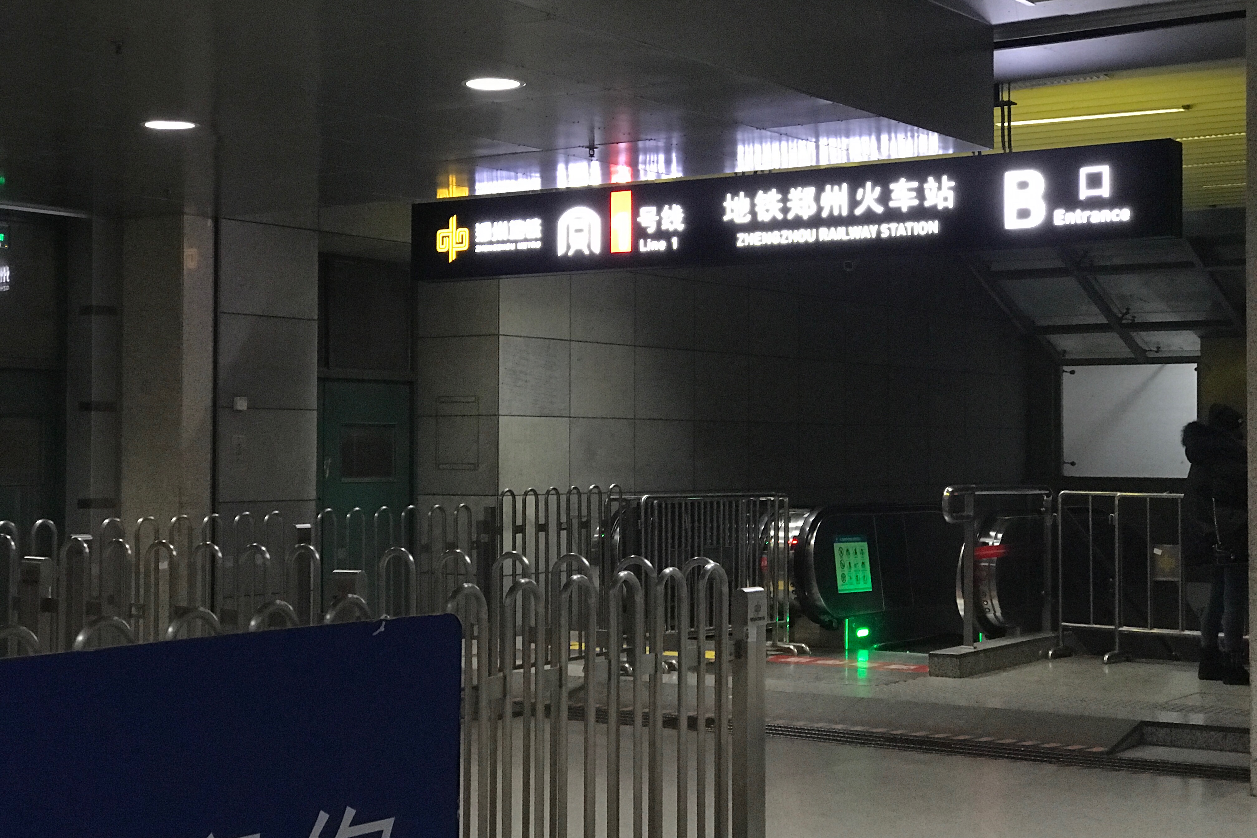 Entrance B of Zhengzhou Railway Station (Metro)